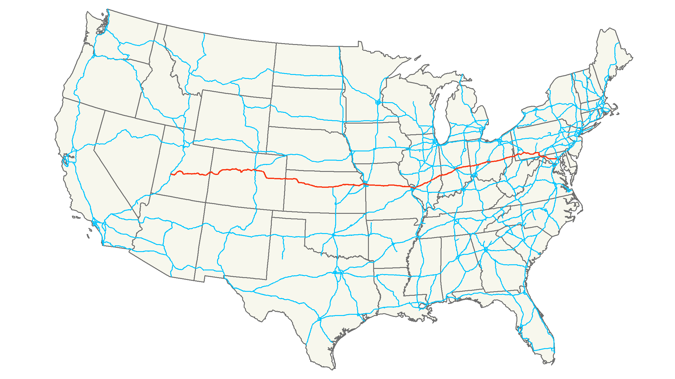 Map of Interstate 70